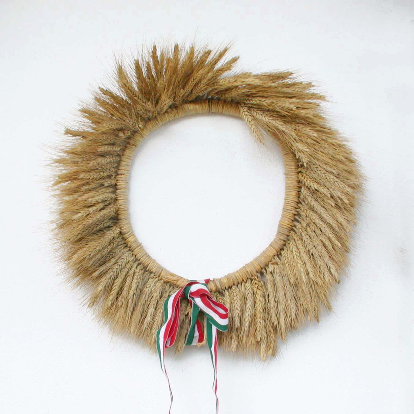 Harvest Wreath with Hungarian tricolour - In a Hungarian harvest time when the women made a wreath of wheat which the priest blesses.